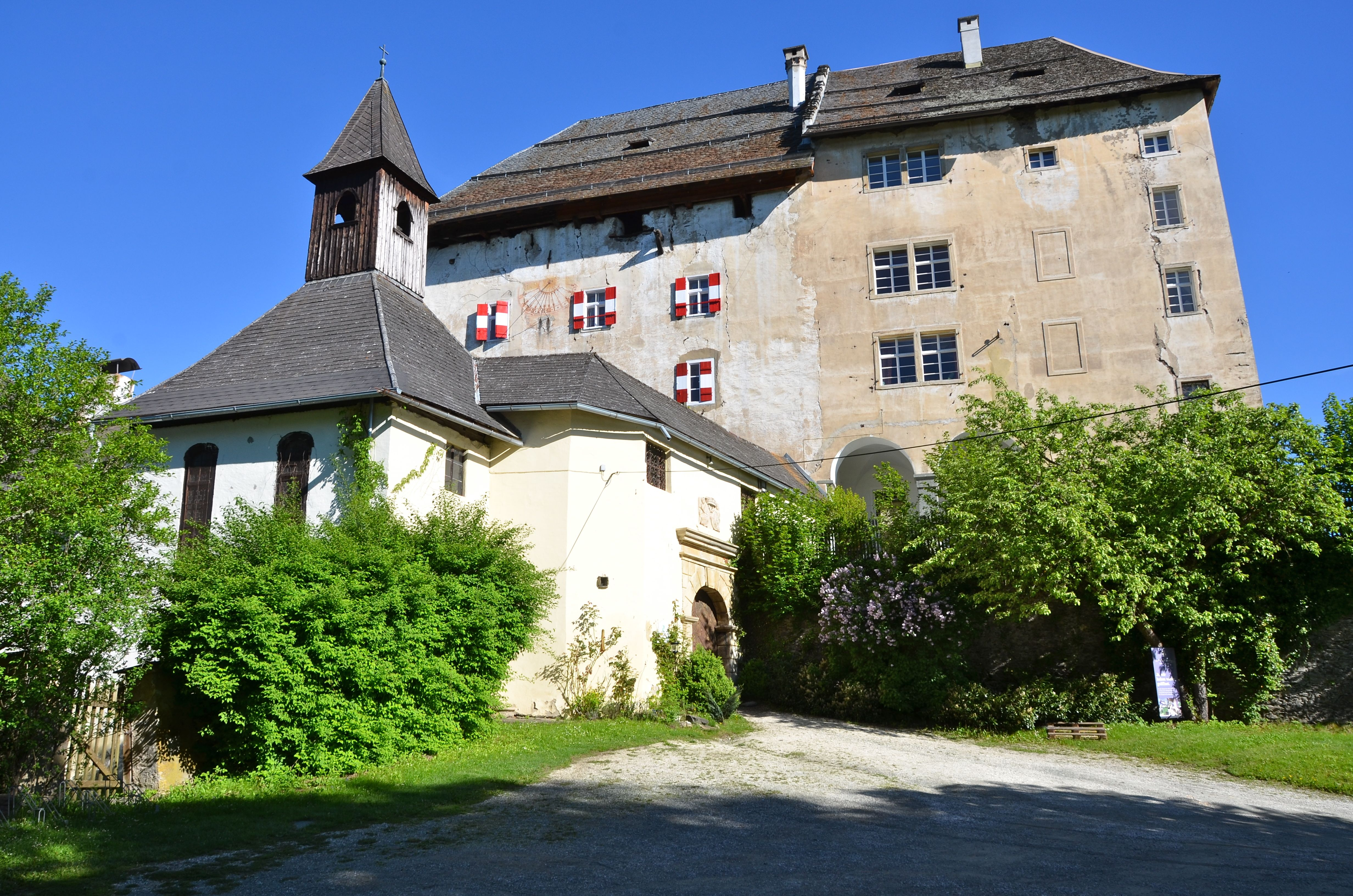 Southern view of castle chapel and castle in Schloss #1, market town Moosburg, district Klagenfurt Land, Carinthia, Austria, EU